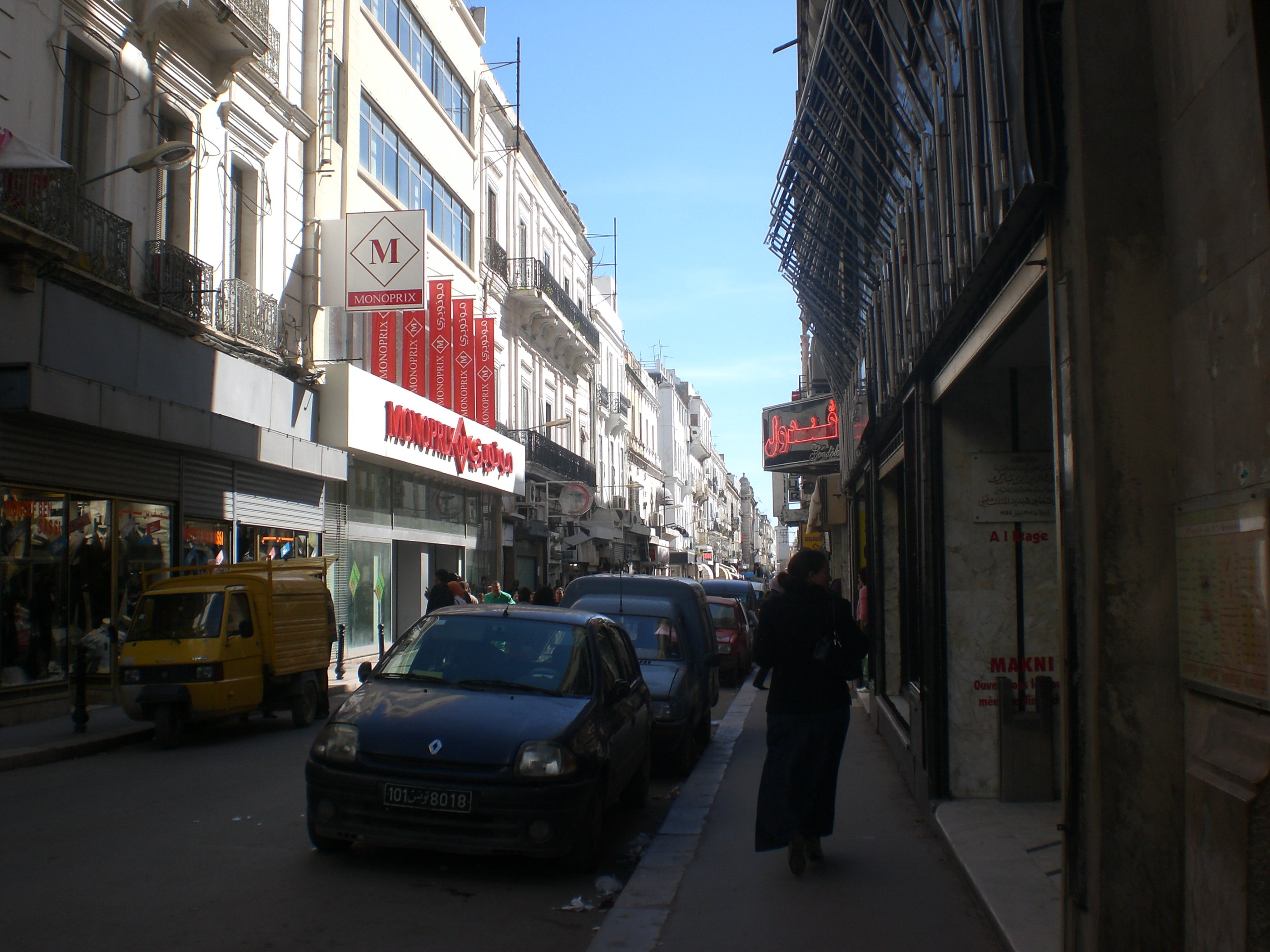 Charles de Gaulle street-Tunis